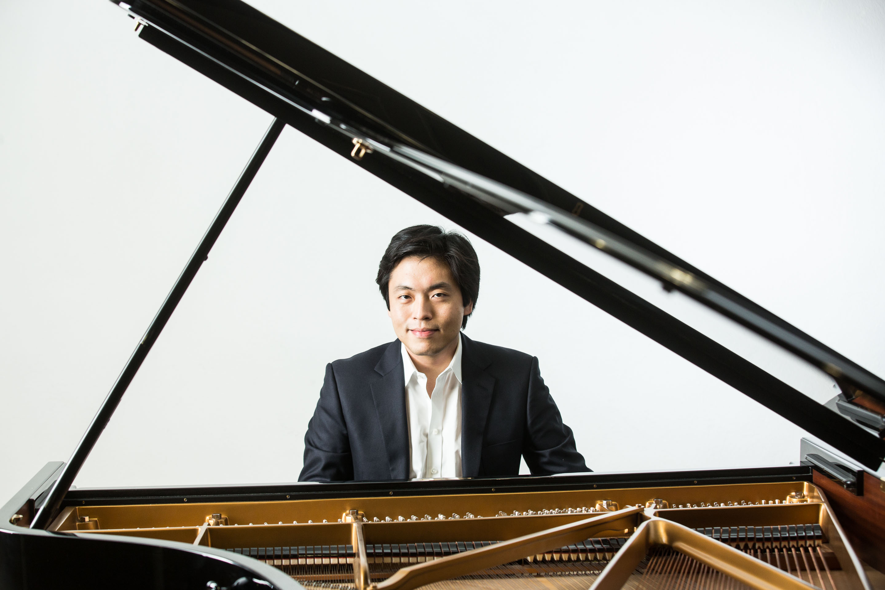 Photo of pianist Sunwook Kim for his Wikipedia page